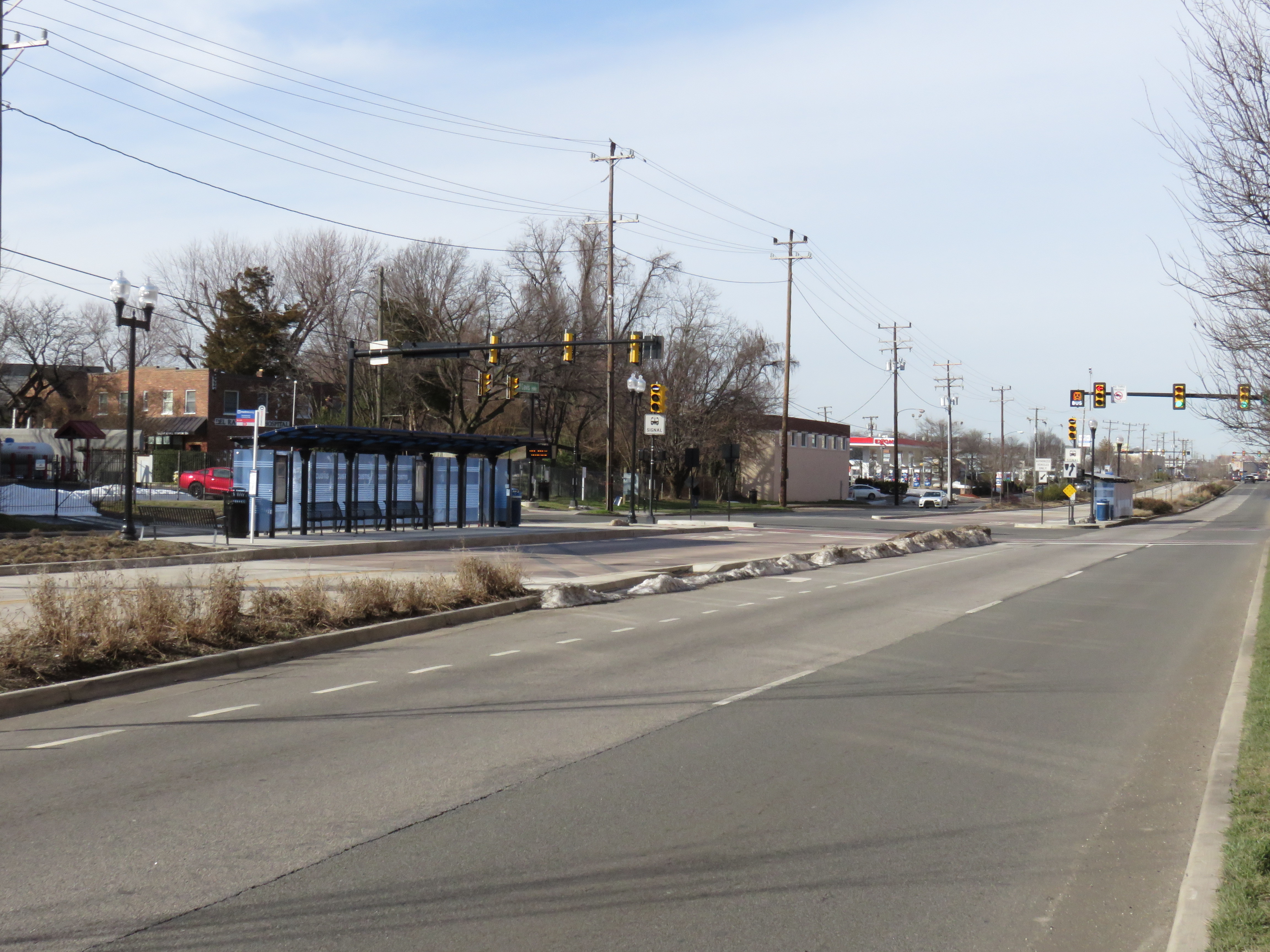 Custis Metroway station in Potomac Yard, Alexandria, Virginia in February 2016